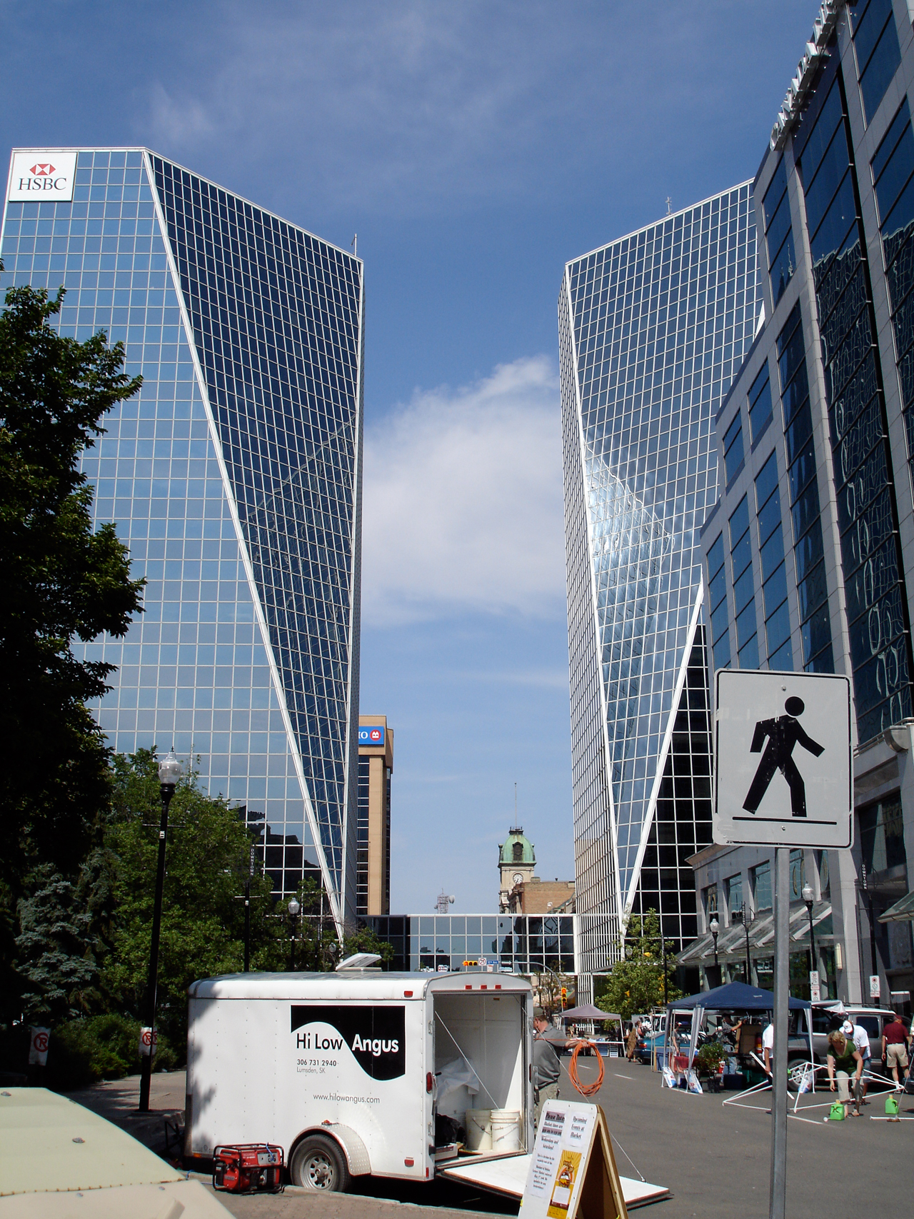 Regina's most recognizable skyscrapers are McCallum Centre Towers. The first tower (on the left) was built in the mid-1980s on the site of the McCallum-Hill Building. The second tower was not constructed until the early 1990s.